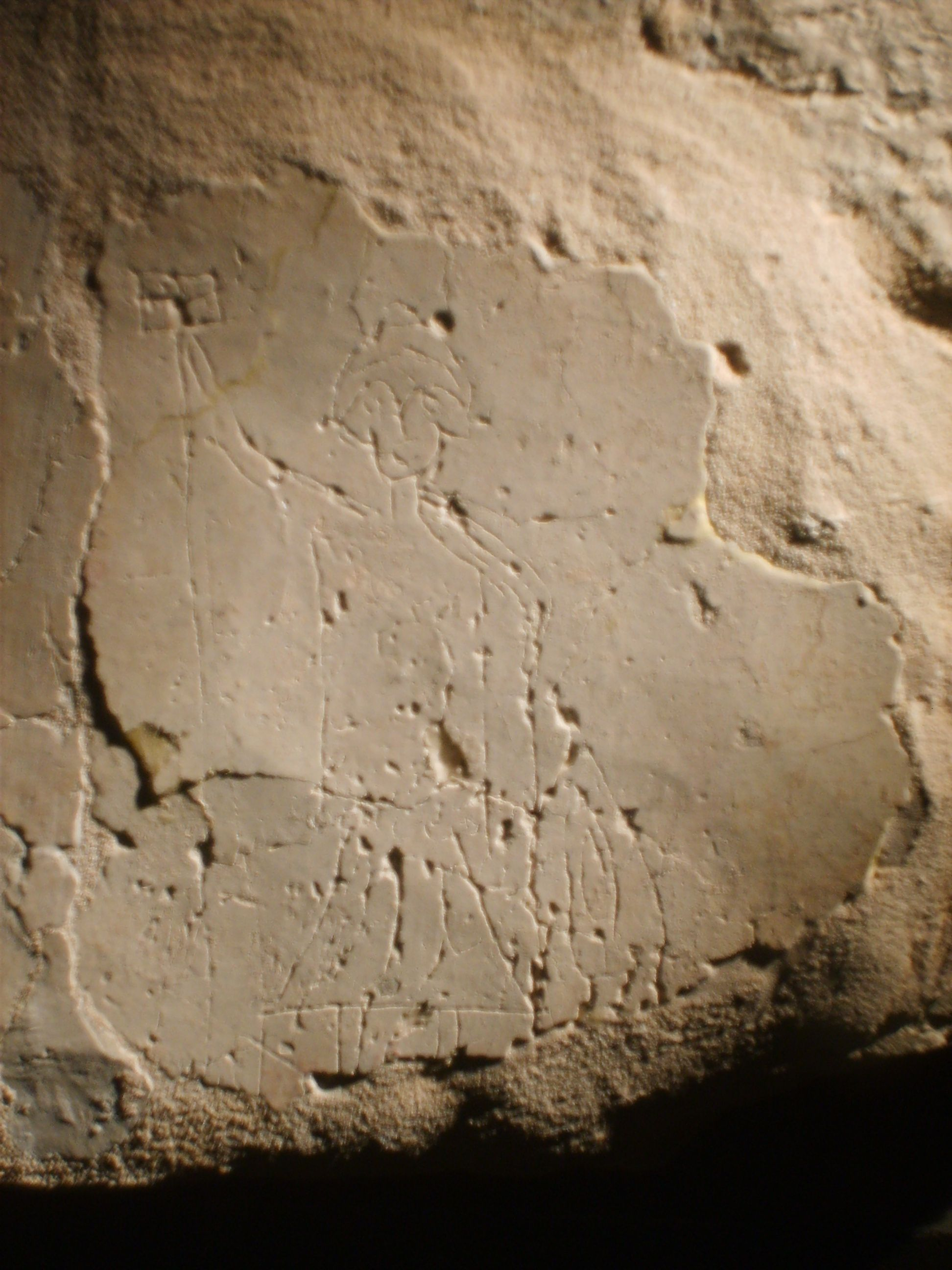 Graffito with the representation of a standing man with the cosmic cross in a square (probably John the Baptist) - found at the Church of the Annunciation in Nazareth - End of the 1st century BC.